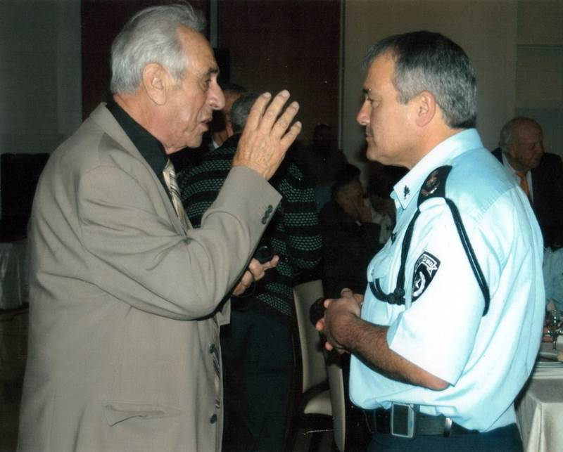 המפכ"ל דודי כהן